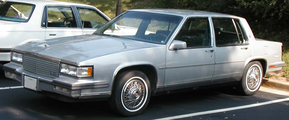 1985-1989 Cadillac Sedan de Ville photographed in USA.